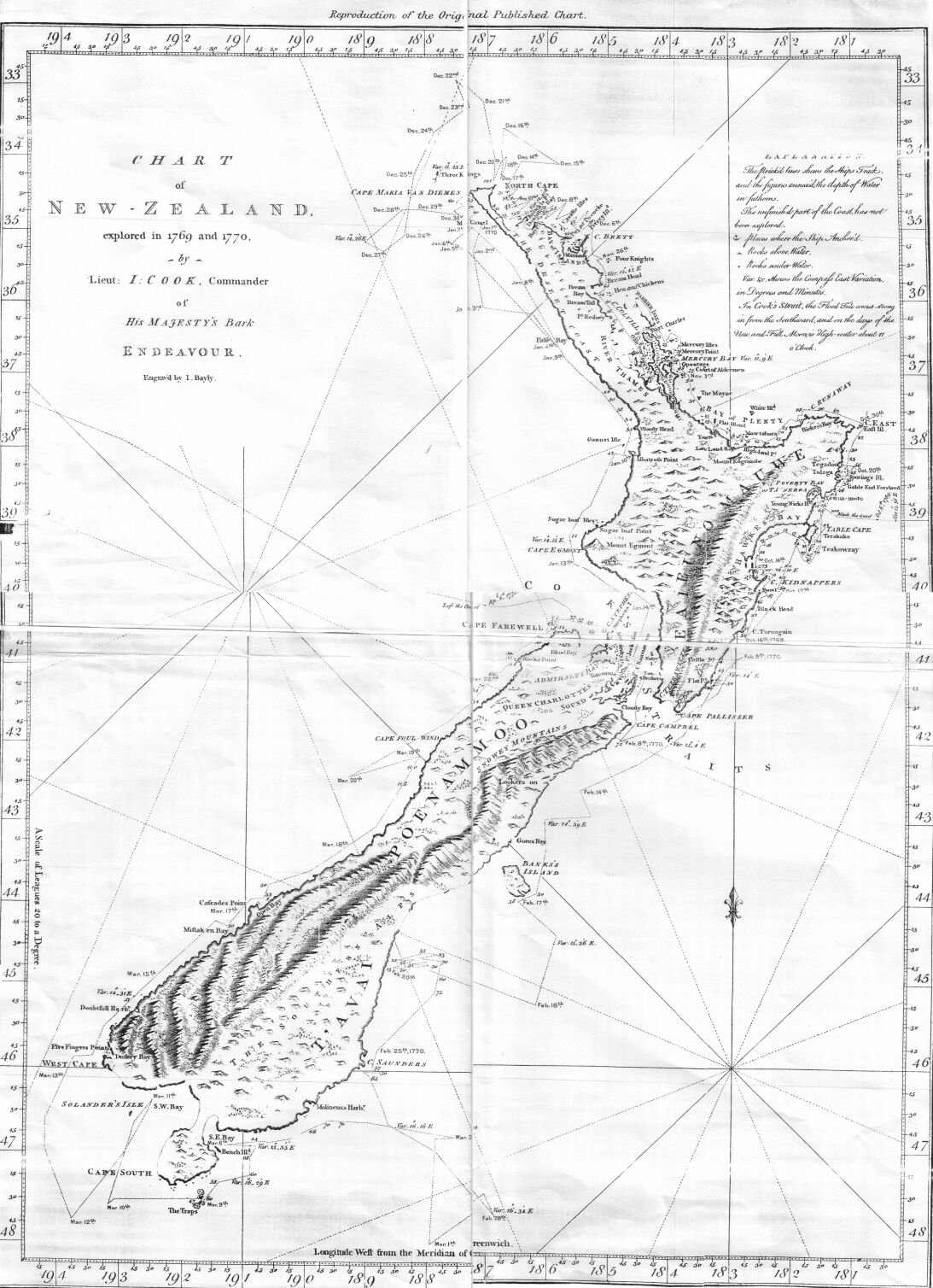 This is an image of a chart of New Zealand made by Lieutenant (later Captain Sir) James Cook during his 1770 voyage of exploration in the Pacific in command of HM Bark Endeavour.